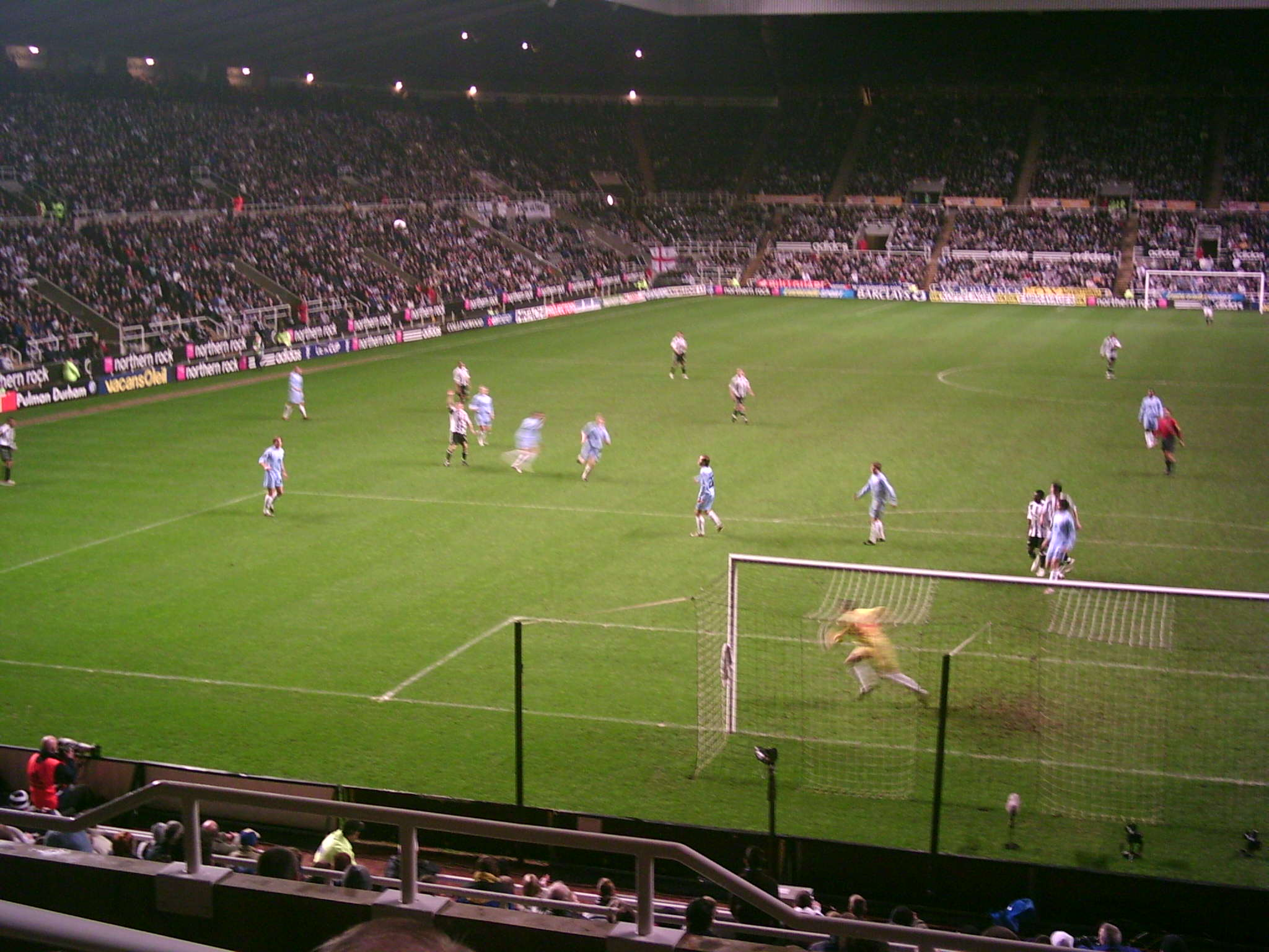 Newcastle United v Zulte Waragem, St James' Park